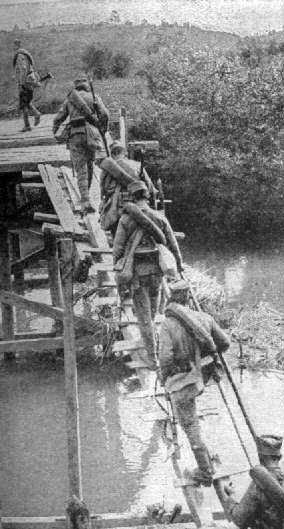 Serbian soldiers are crossing Kolubara river during battle of Kolubara (1914)